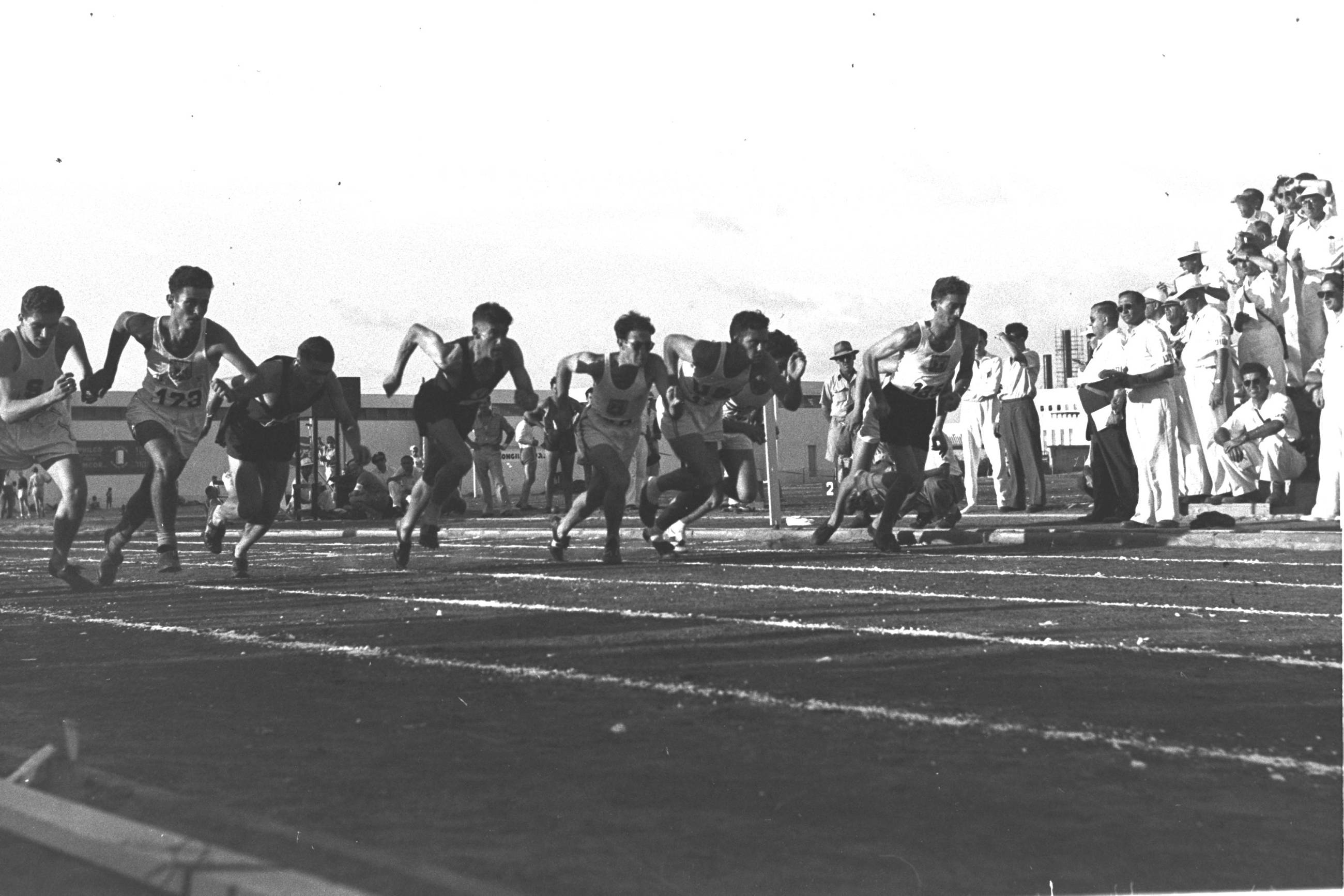 THE 100 M COMPETITION DURING THE 3RD MACCABIA GAMES HELD AT THE RAMAT GAN STADIUM.